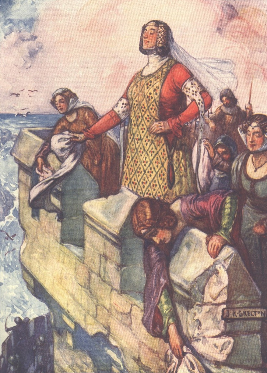 A depiction of 'Black Agnes' in H E Marshall's 'Scotland's Story', published in 1906.